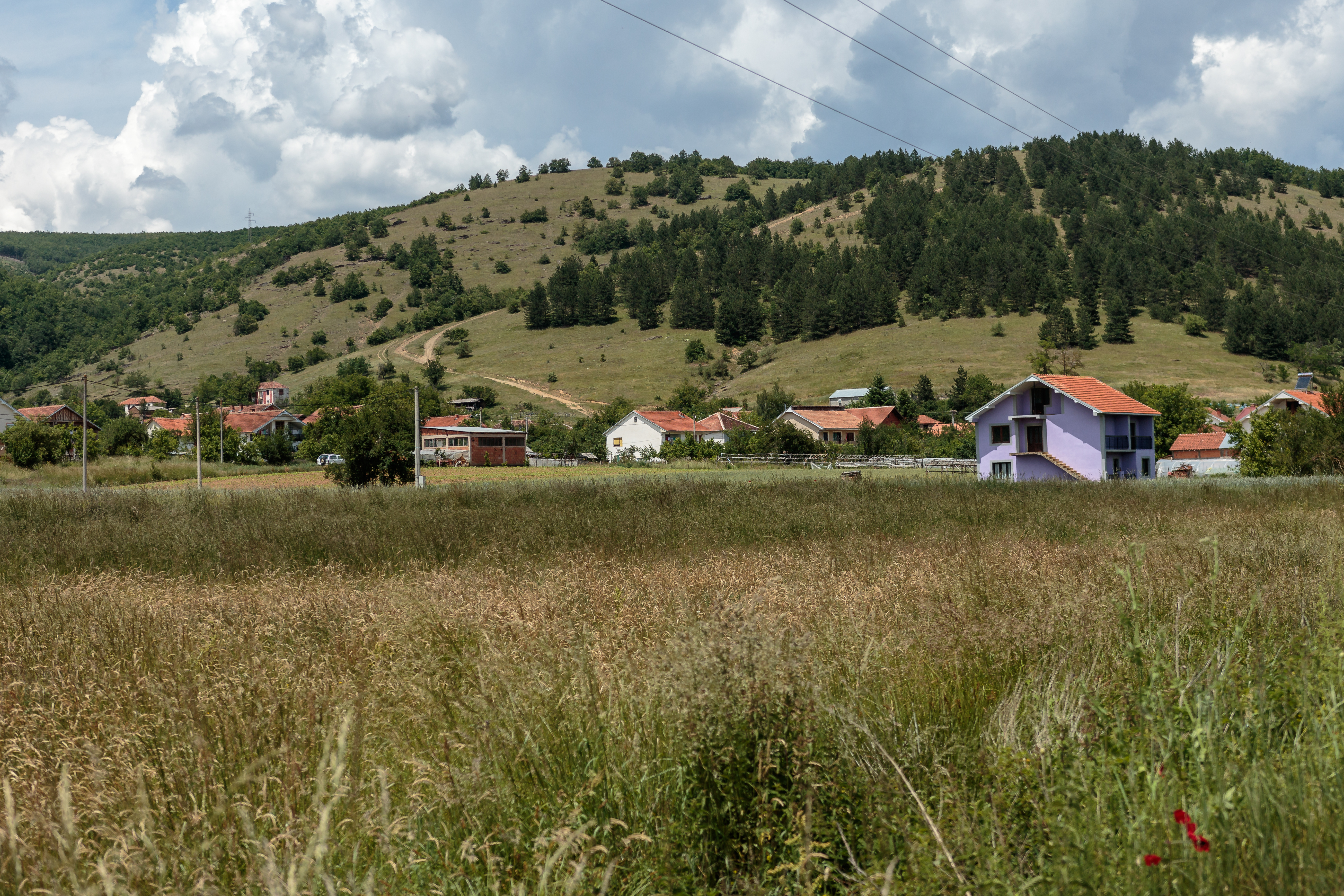 View of the village Belče